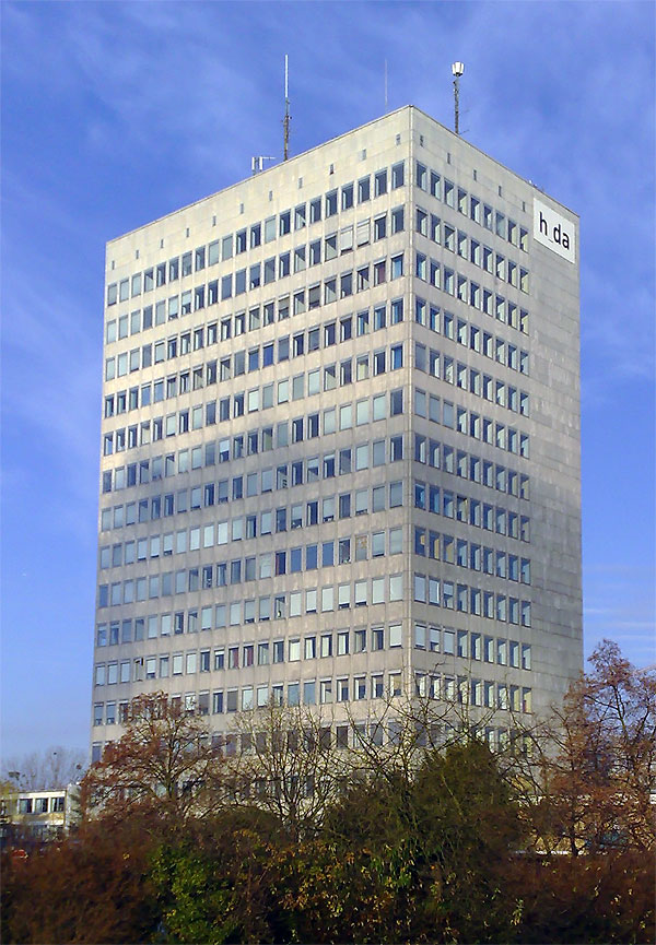 tower block (building C10) of University of Applied Sciences in Darmstadt